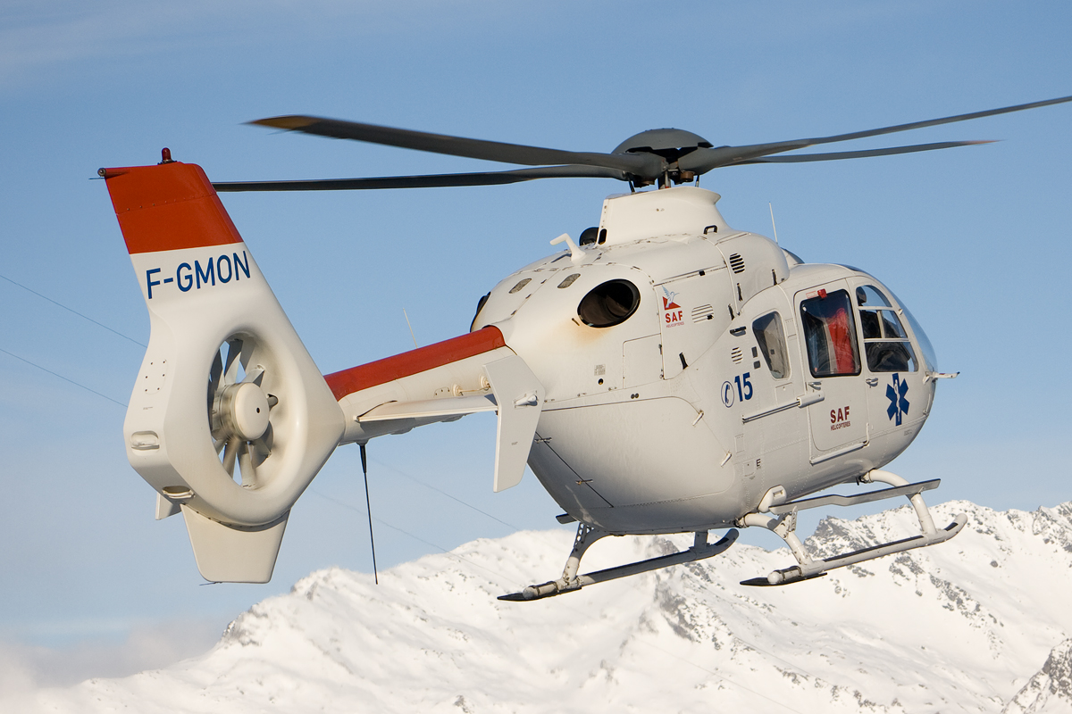 Eurocopter EC-135 at Les Arcs during rescue operation